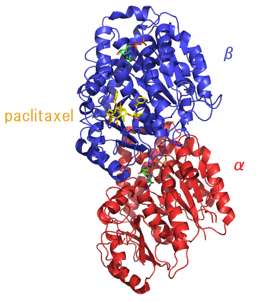 The complex of α-tubulin subunit(red), β-tubulin subunit(blue) and paclitaxel(yellow). GTP binds at the site between α and β subunits. GDP binds at β side. This file is created from PDB file id=[2HXF